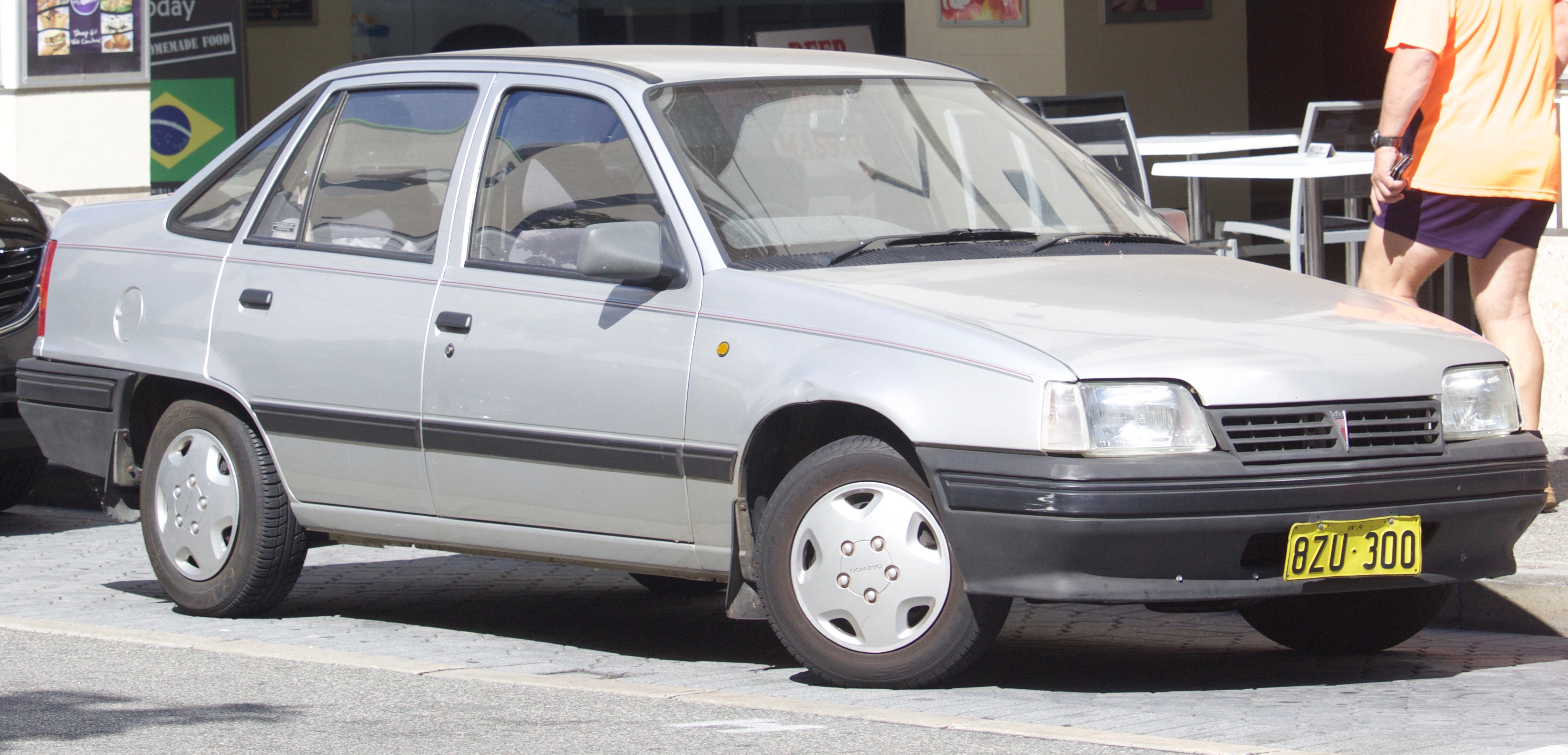 1994-1995 Daewoo 1.5i sedan. Photographed in Perth, Western Australia, Australia. Note: the indicator lenses on the side have been changed to orange to reflect factory specifications. This is also the pre-facelift as denoted by the taillight assemblages.